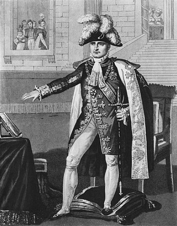 Napoleon at the 'Champ de Mai' 1815